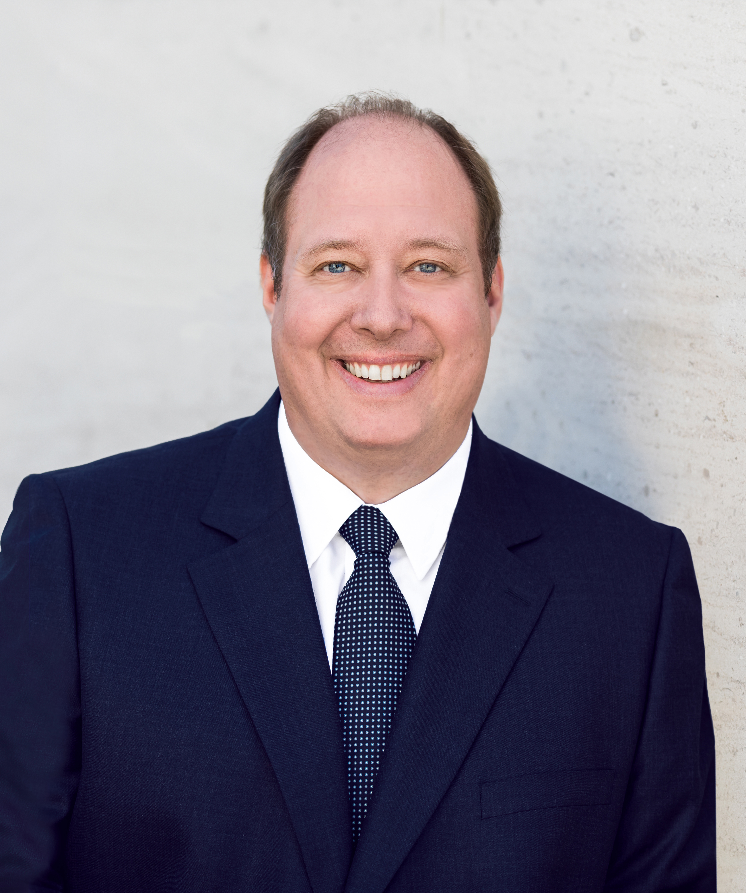 Portrait of Prof. Dr. Helge Braun, member of the Bundestag (CDU) and head of the Chancellery since 14 March 2018.